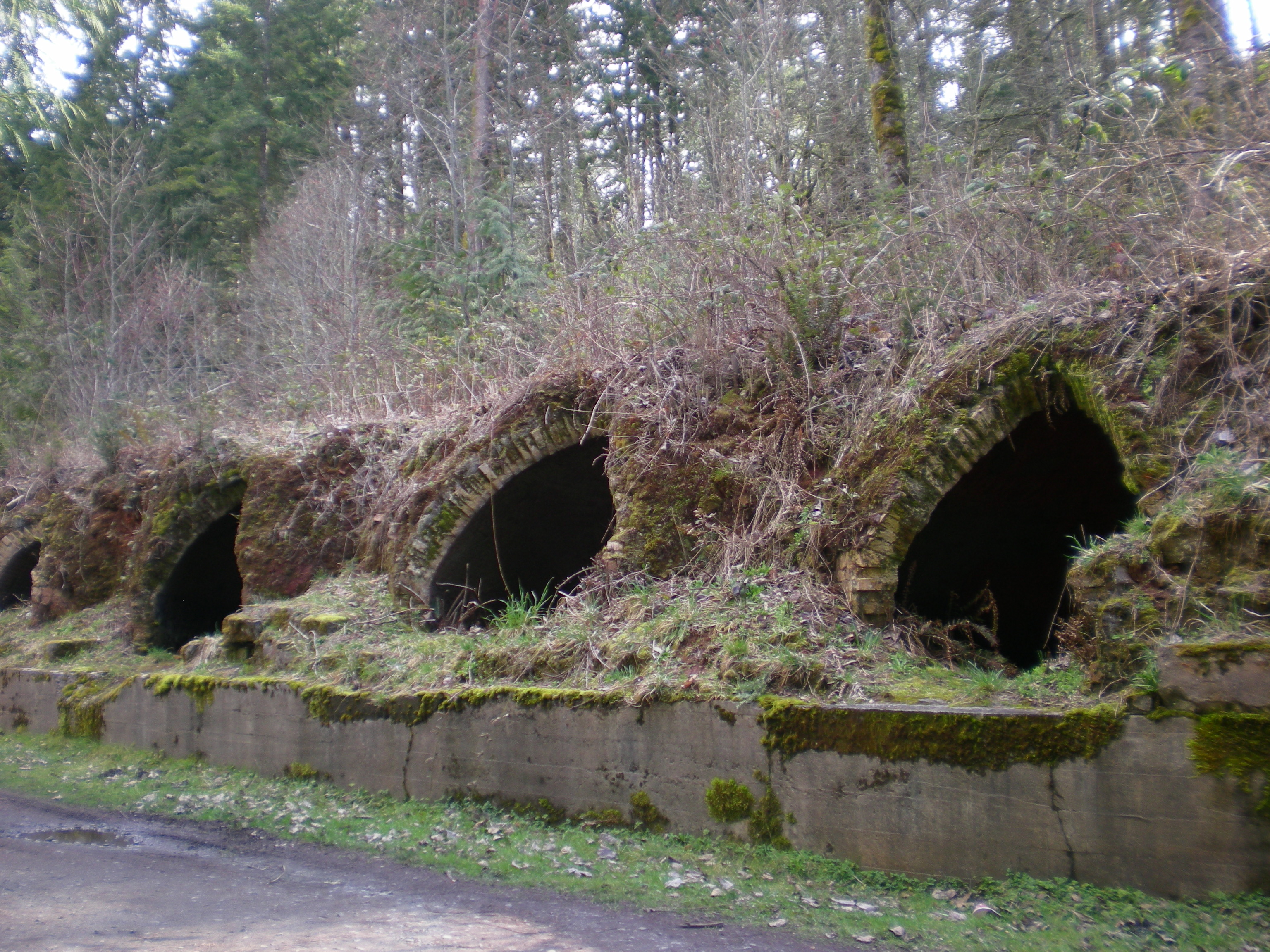 The Coke Ovens in Wilkeson, Washington